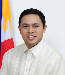 Official portrait of Mark Villar as DPWH secretary